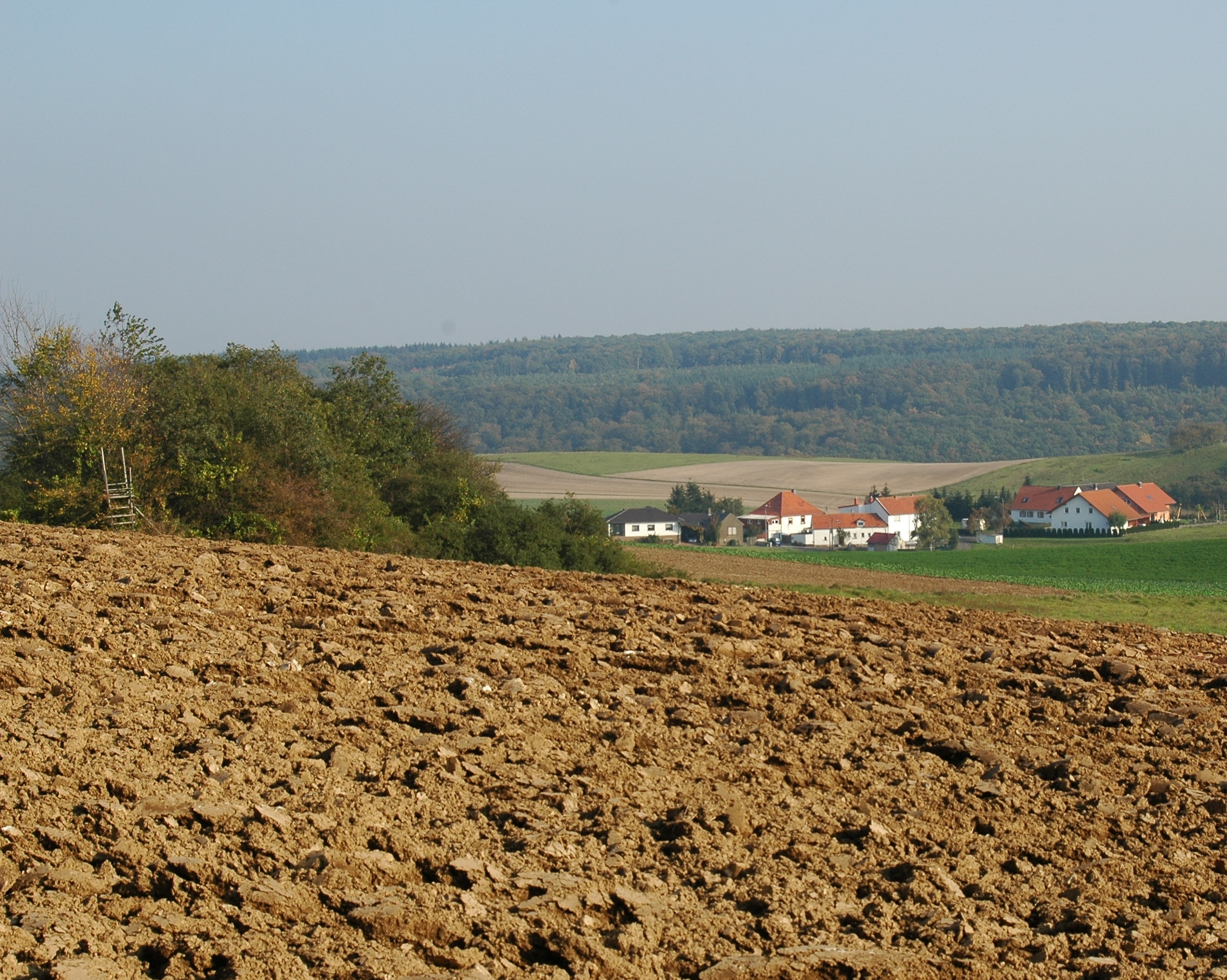 This is a shot of the so called Daimbacher Hof, a settlement that administratively belongs to the village of Mörsfeld, Rhineland-Palatinate, germany. In the foreground to the left a slag heap is visible, with its source in ancient mercury mining at this place.